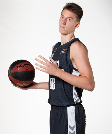 foto ACB